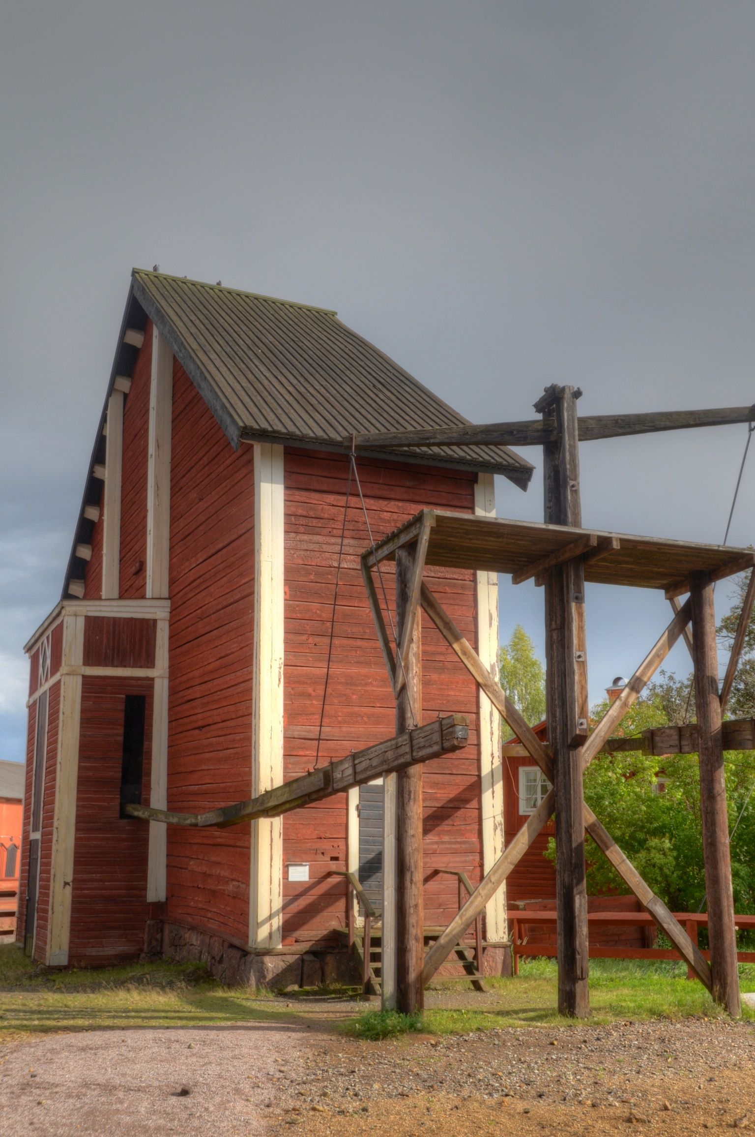 Old building of Falun Gruva containing a pump.